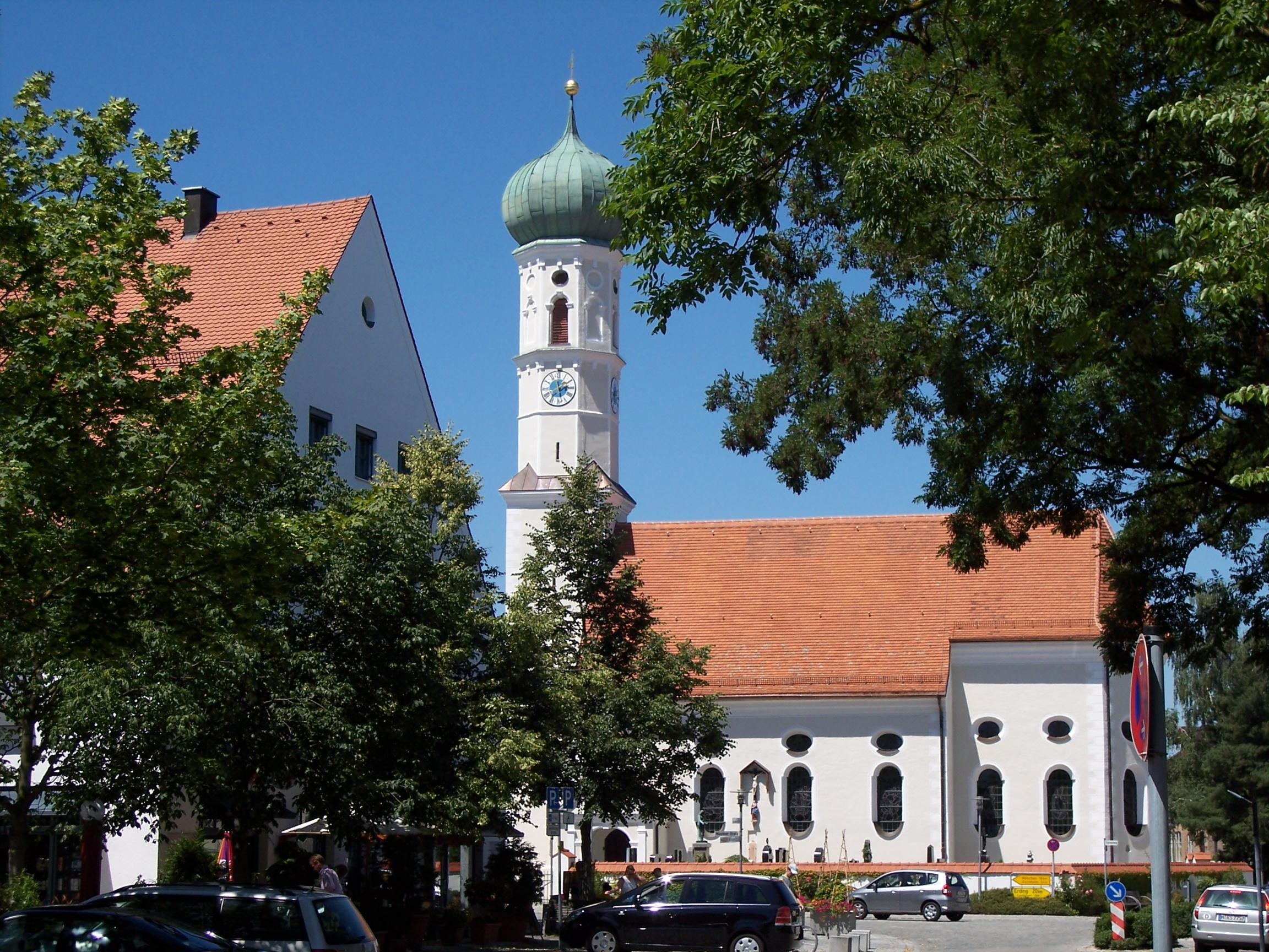 image shows St. Andreas, the first church of Kirchheim bei München, Germany